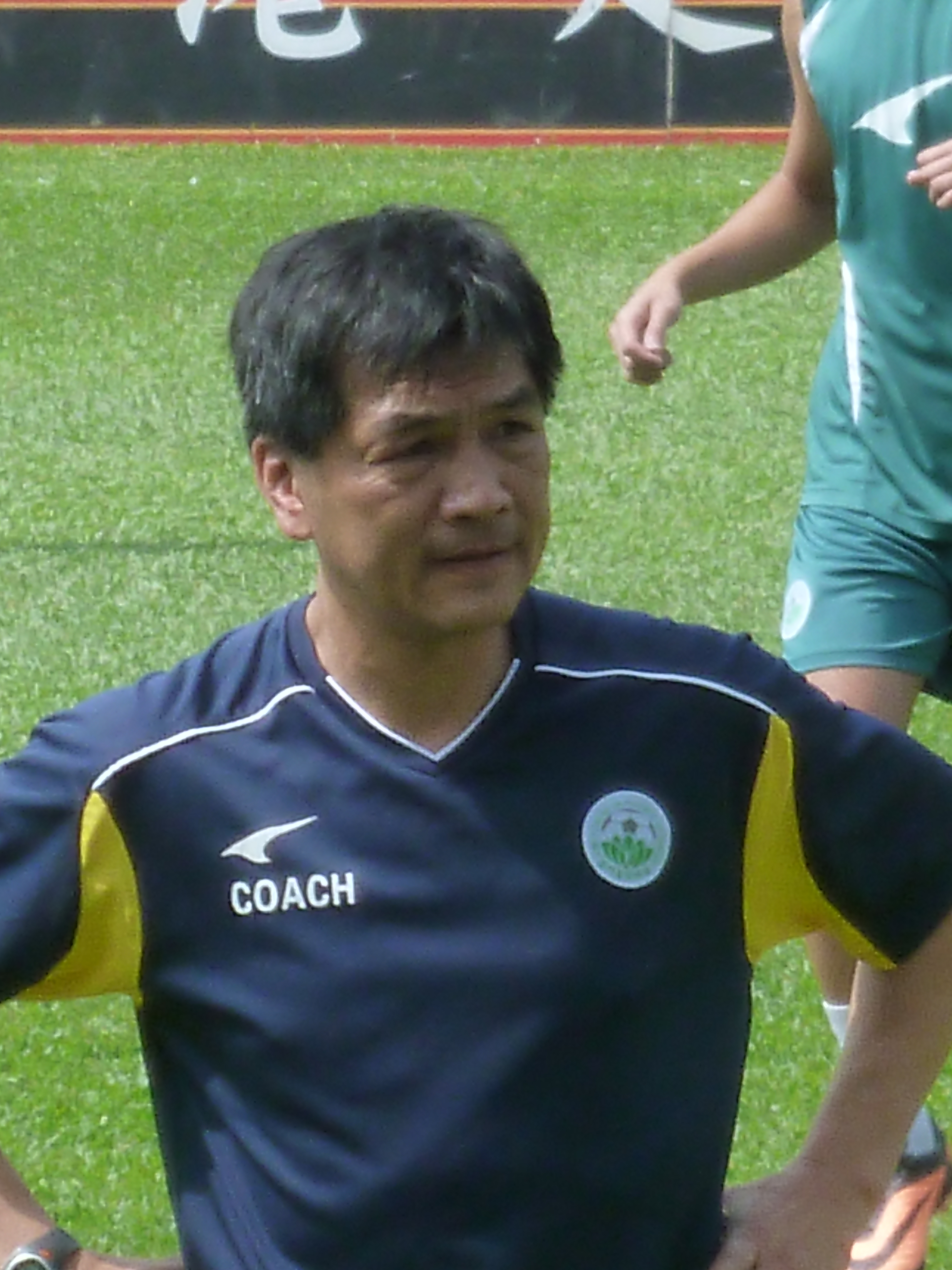 Leung Sui Wing (01 Oct 2013, 69th HK-Macau Interport, Hong Kong vs Macau, Mongkok Stadium) 中文（香港）: 梁帥榮 (01 Oct 2013, 第69屆港澳埠際賽, 香港 vs 澳門, 旺角大球場)